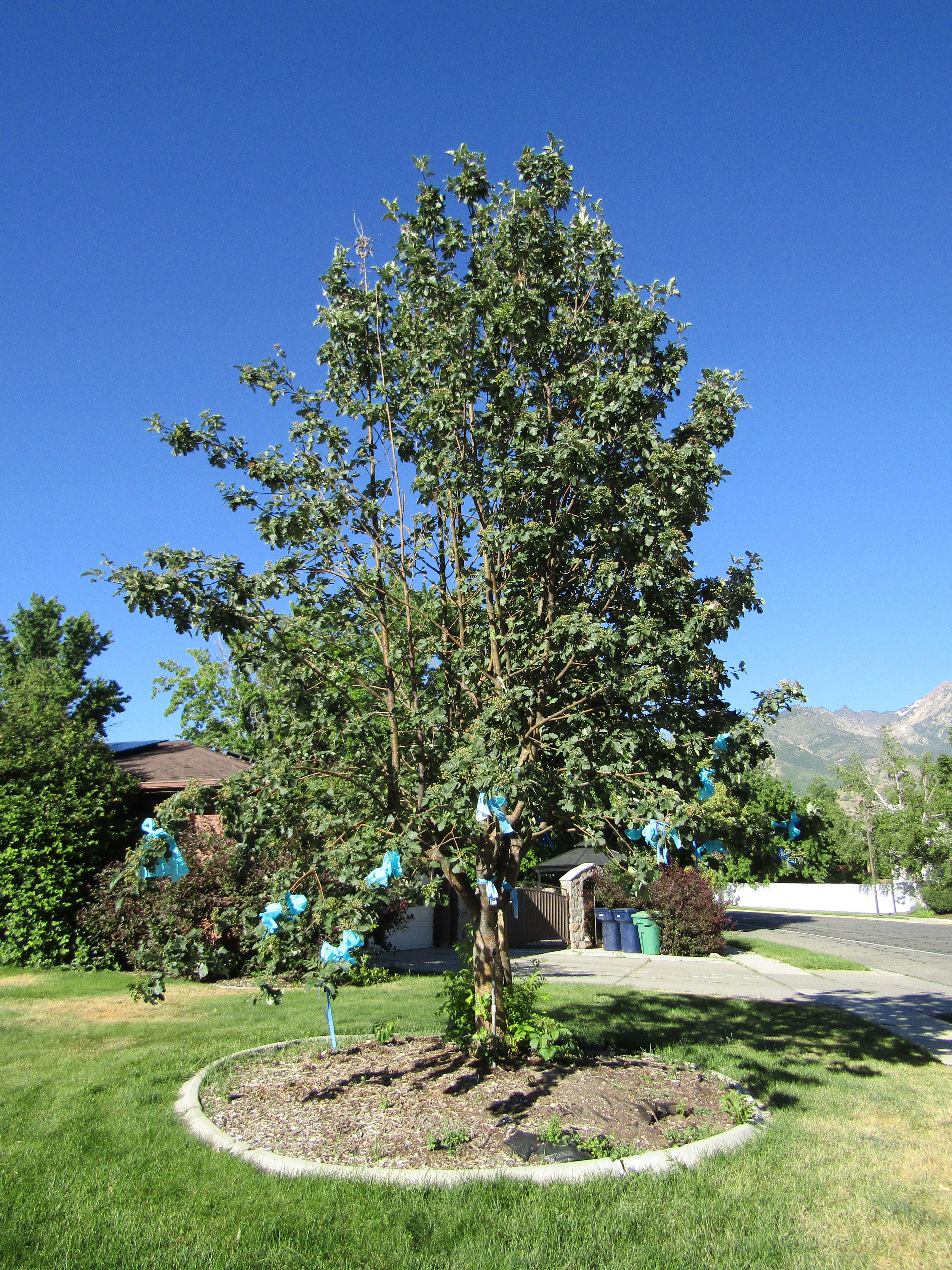 Blue ribbons placed a tree near where a shooting occurred in early June 2017.